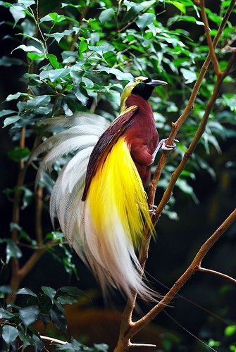 Bird of paradise is a paradise of birds that exist only on the island of Papua - Indonesia